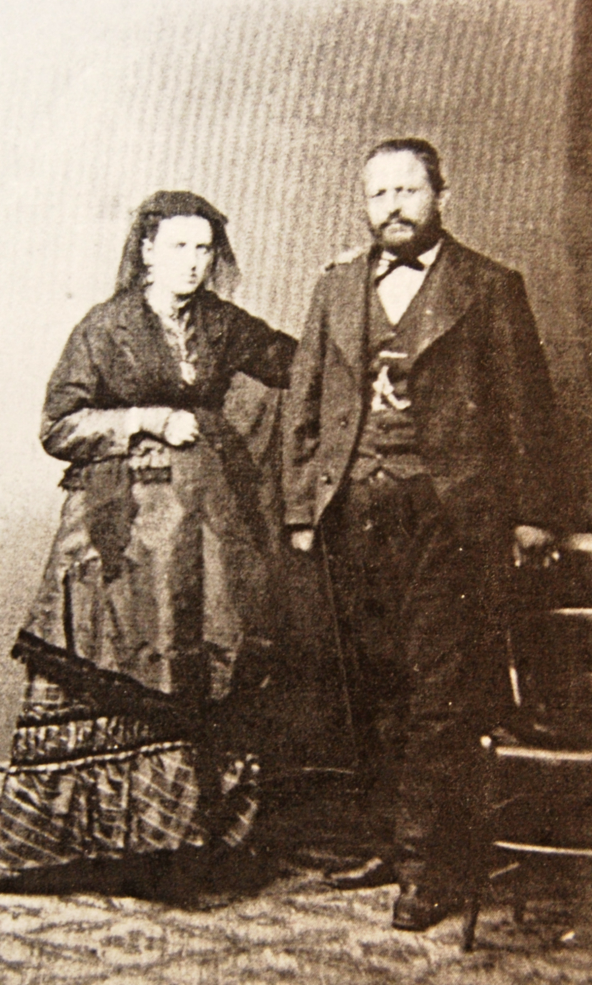 Eugene Garsin and Flaminio Modigliani parents of Amedeo Modigliani in a picture taken Ca. 1884 a few months previous to the birth of the artists.